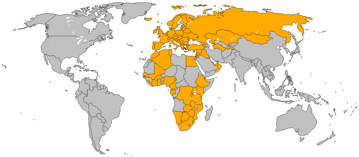 This world map illustrates the nations that have national member society representation in the International Amateur Radio Union. This map was created by Kenneth E. Harker WM5R of Austin, USA, in January, 2009. References International Amateur Radio Union (2008). "Member Societies". Retrieved January 21, 2009.